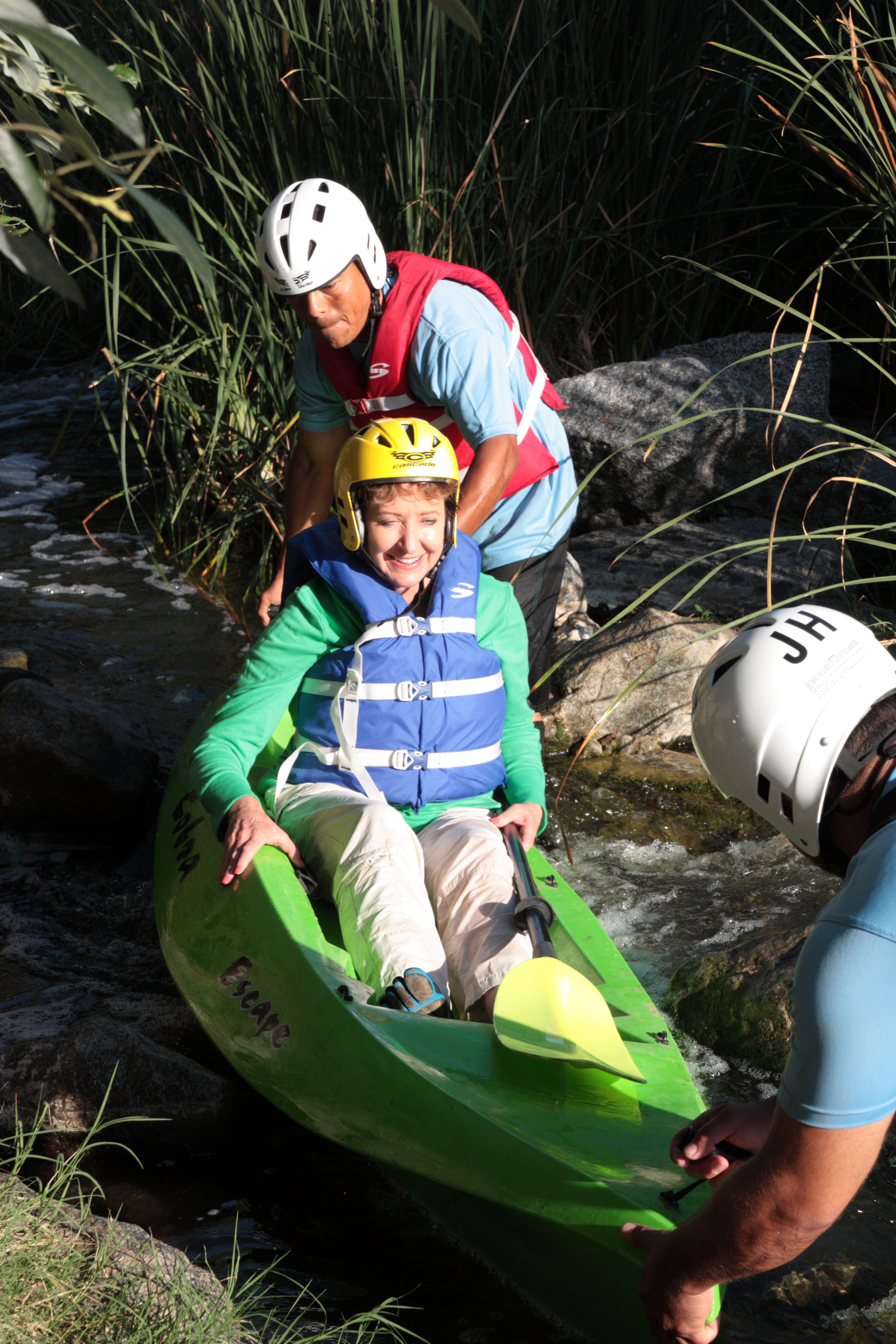 An excursion on the Los Angeles River begins with equal parts portage and paddle. Participants navigate the Cattail Chute and an area called Lake Balboa Ledge July 28, 2012.